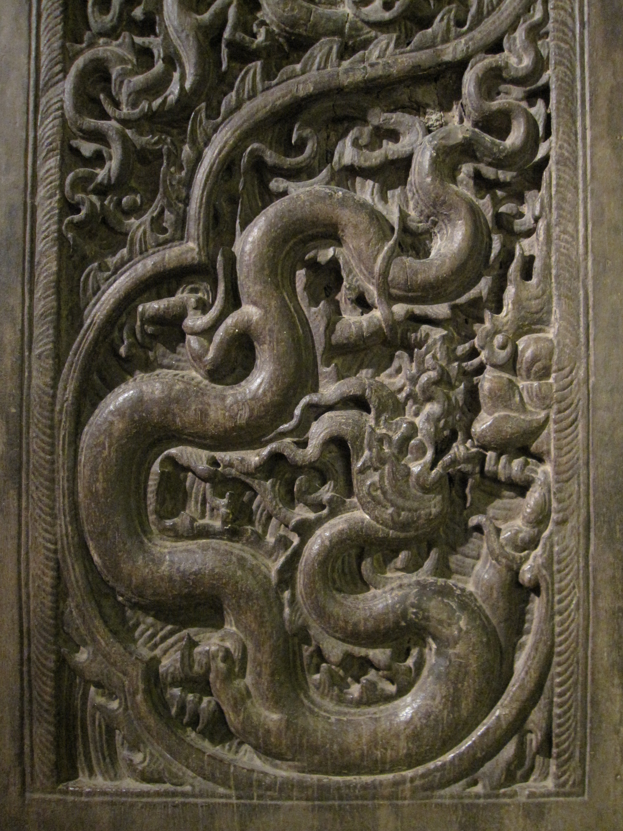 Doors. Carved wood, Trần dynasty, 13th-14th century. Phổ Minh pagoda, Nam Định province, northern Vietnam. Architectural element. National Museum of Vietnamese History, Hanoi.